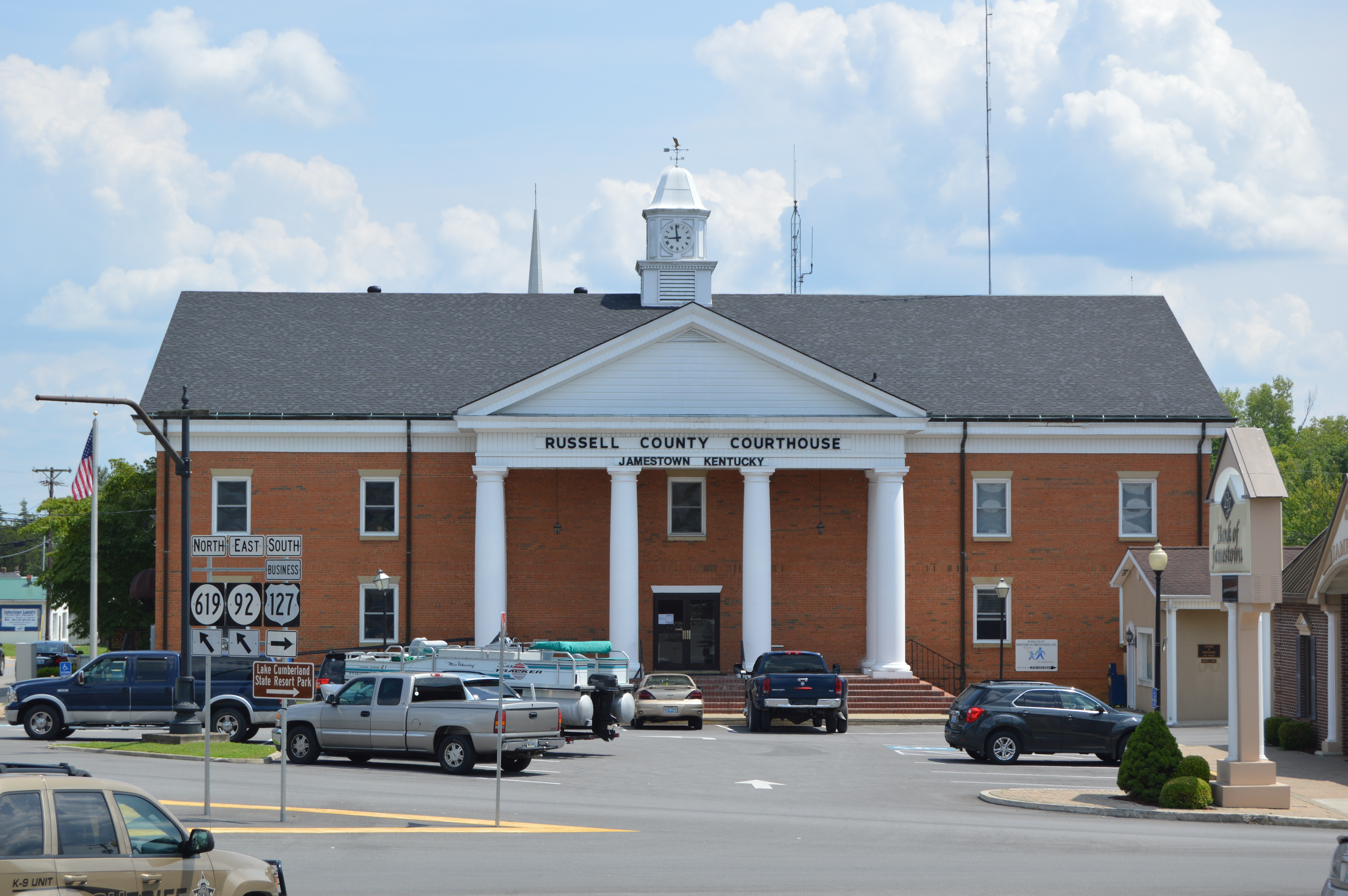 Front of the Russell County Courthouse, located at 402 Monument Square (Kentucky Route 92/619) in downtown Jamestown, Kentucky, United States. It was built in 1977.